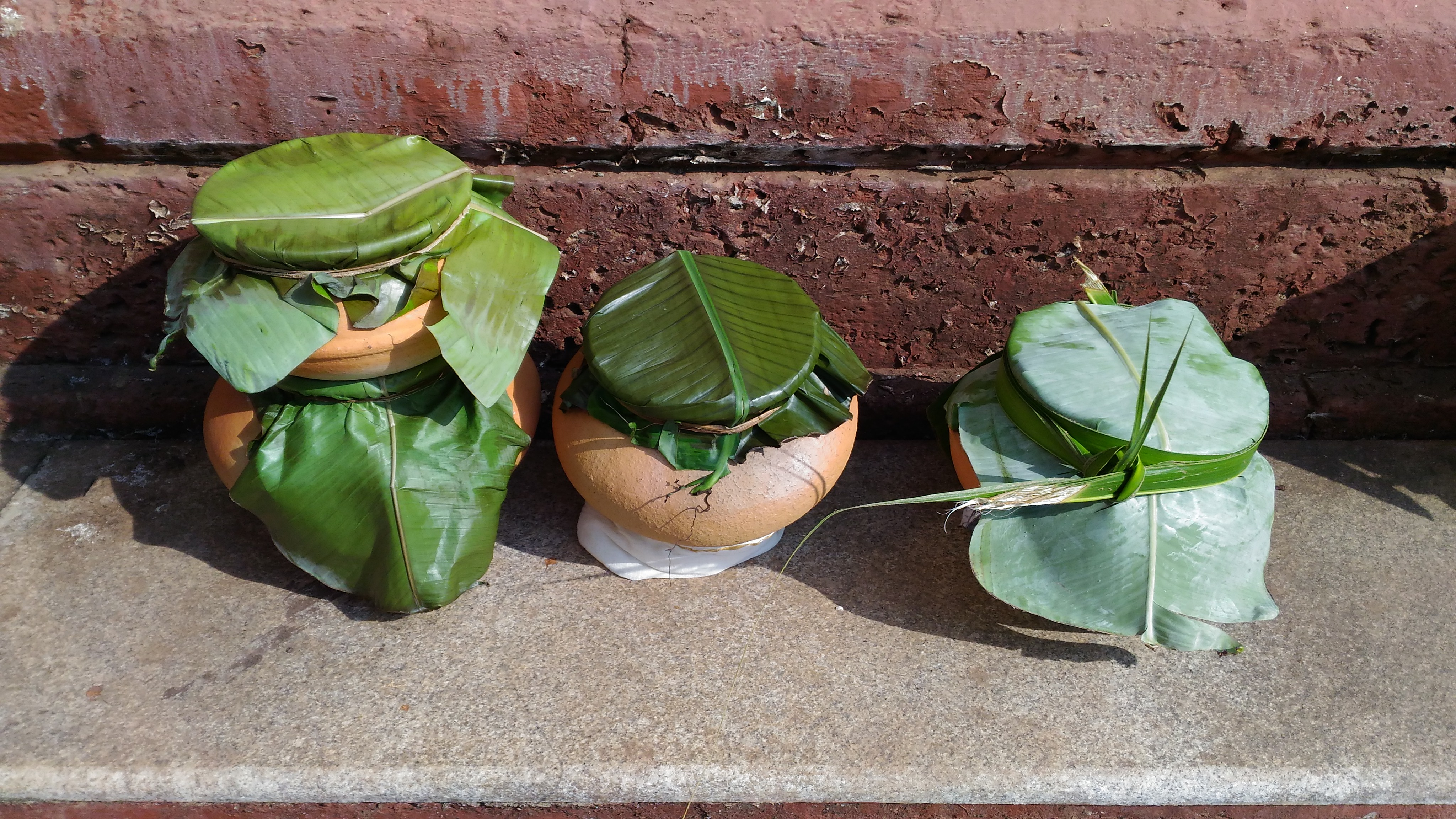 Pots for Kalam Kanippu